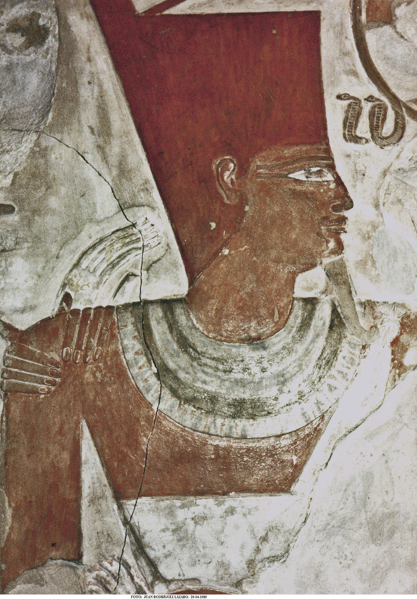 Relief showing Mentuhotep II in front of Montu from his mortuary temple in Deir el Bahri, Londres. British Museum, EA 1397.